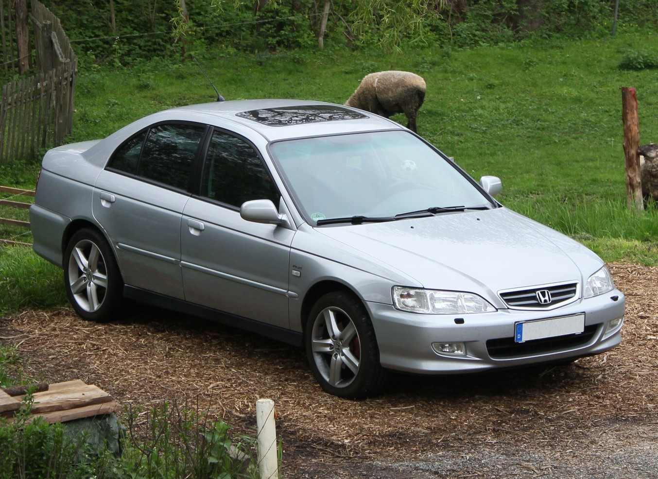 Honda Accord ES 2.3, european version, build: 2001-2002